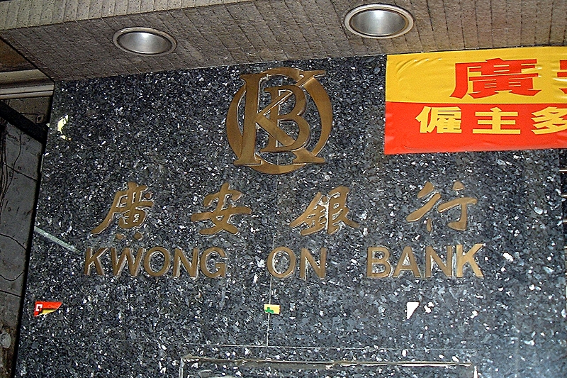 Kwong On Bank Shau Kei Wan Branch. The bank has been merged and becomes DBS Hong Kong.